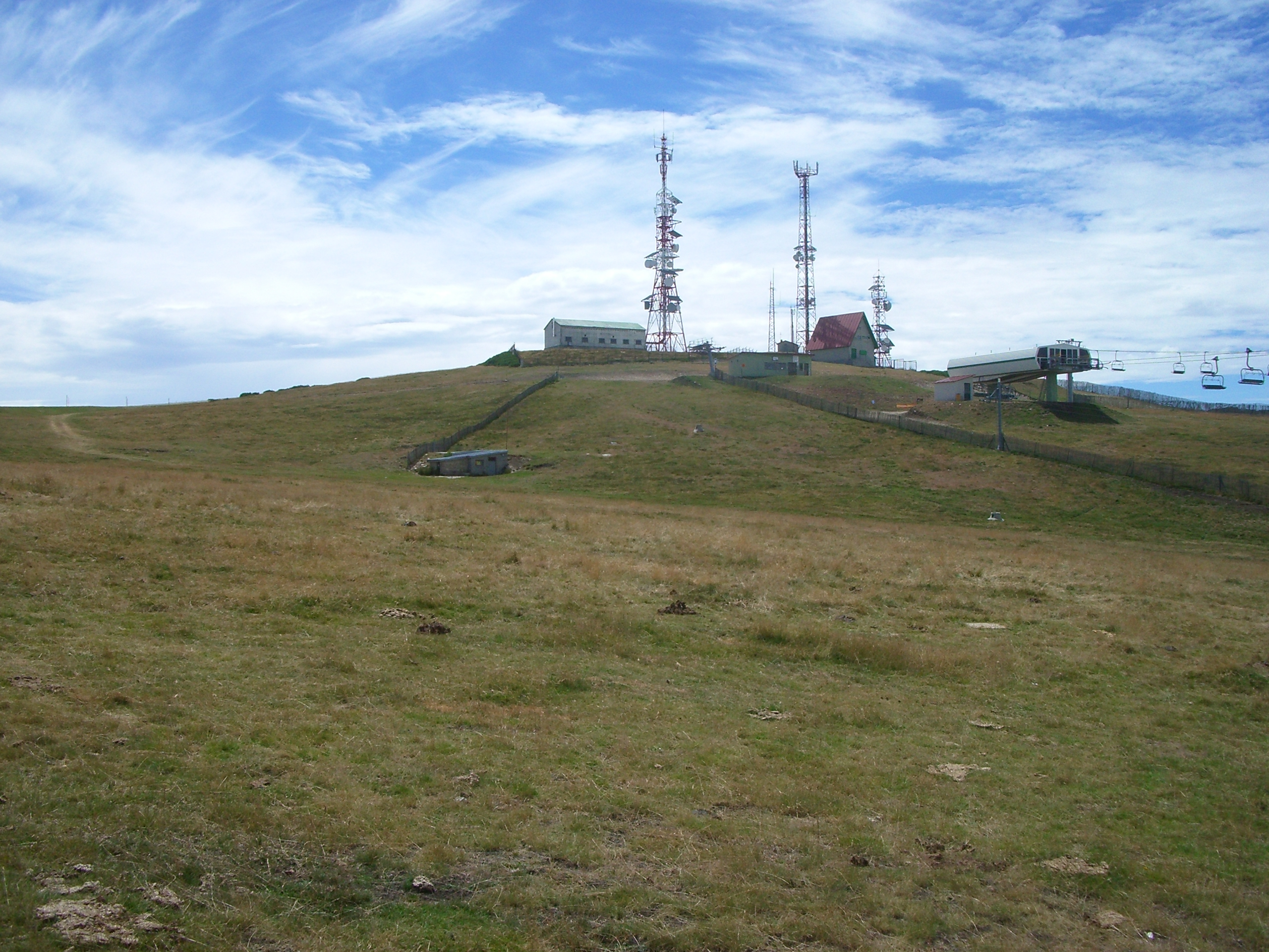 View of the source of river San Lázaro (channeled at the hut on left of the picture) next to the summit of Cabeza de Manzaneda.